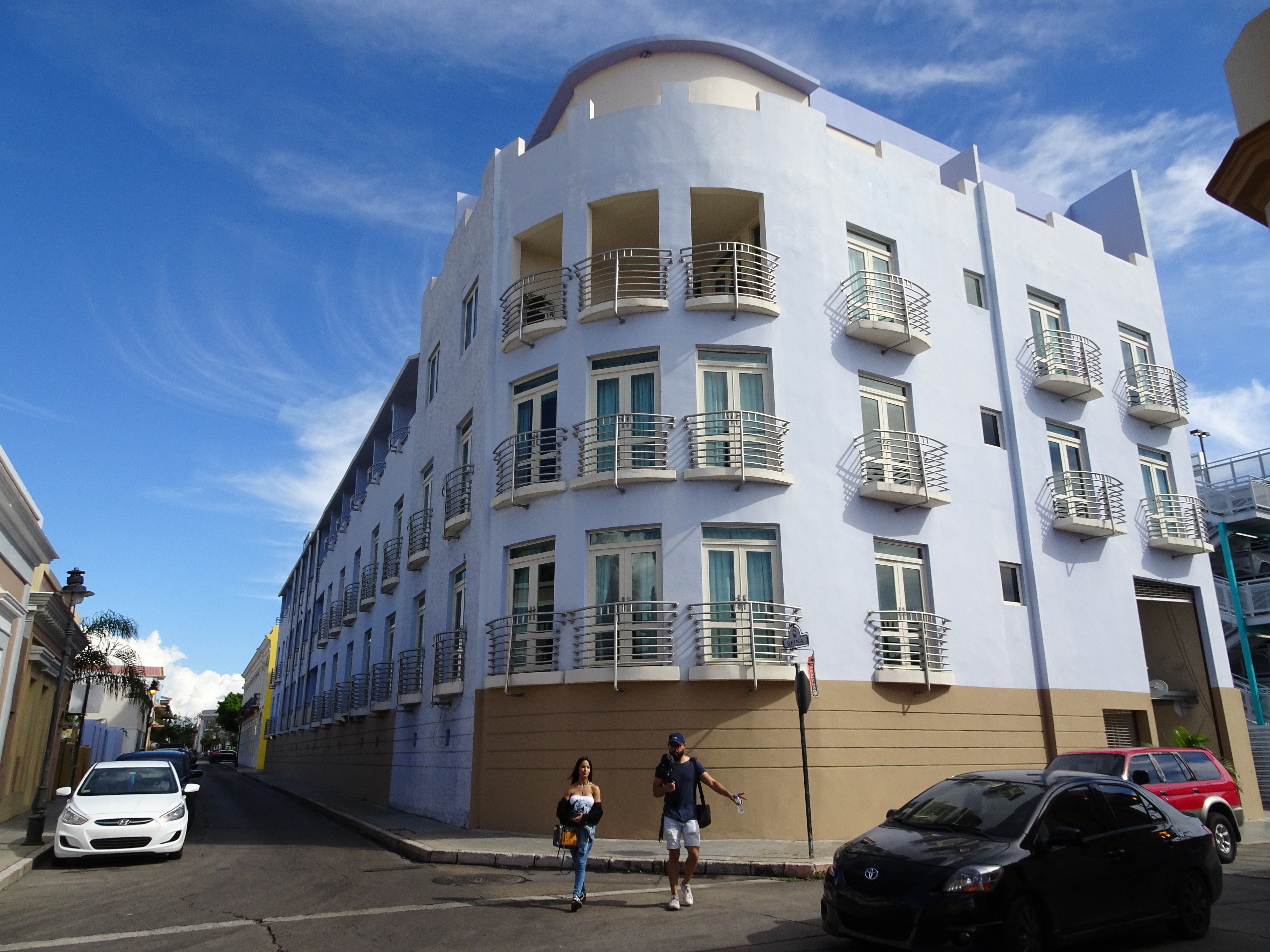 Hotel Ponce Plaza (antiguo Hotel Ponce Ramada), parte trasera, C. Reina y C. Méndez Vigo, Bo. Segundo, Ponce, PR, mirando al sureste (DSC02703)